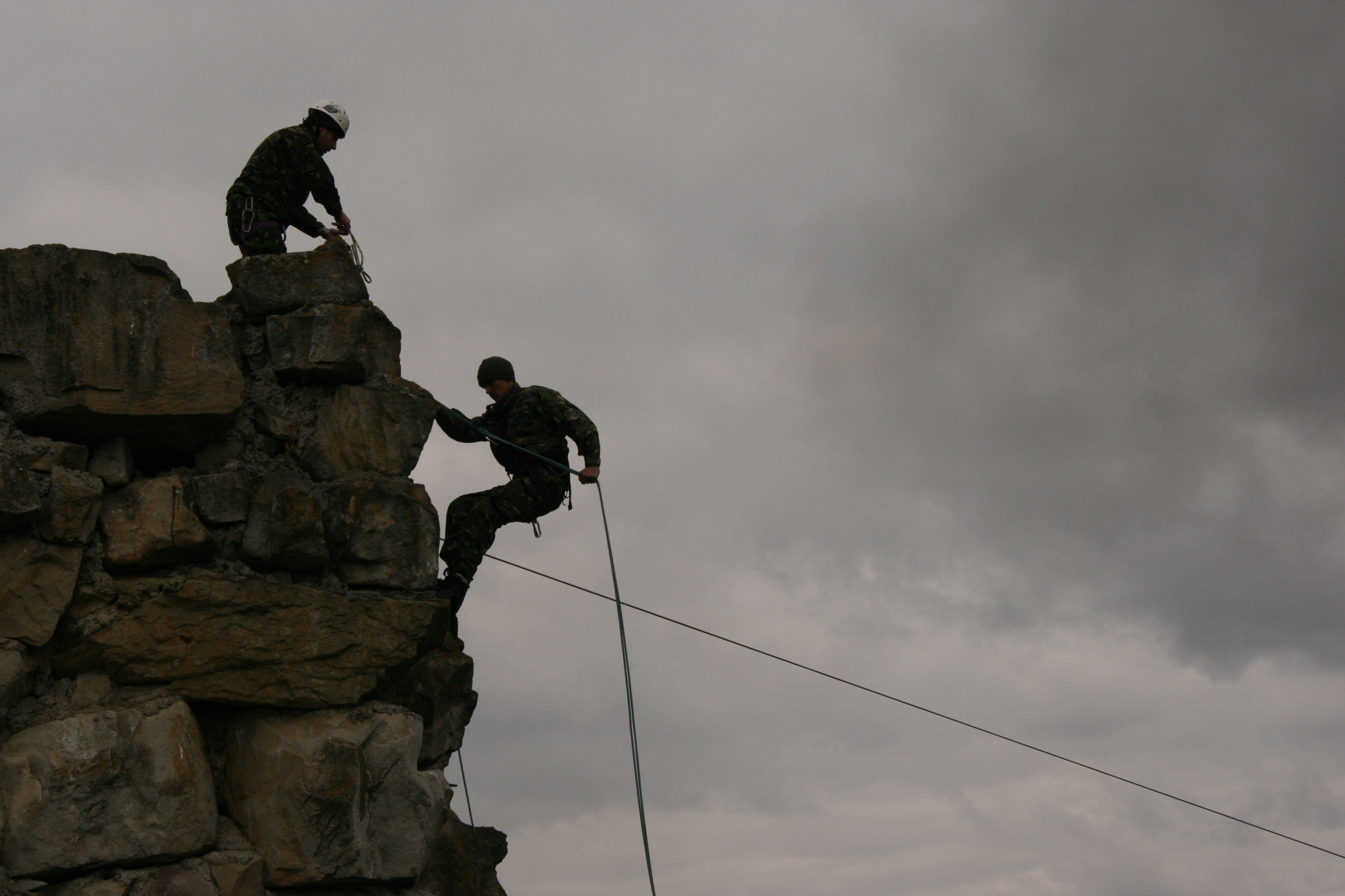 Soldiers from 22nd Mountain Troops Battalion "Cireşoaia" - Sfântu Gheorghe during a military demonstration.